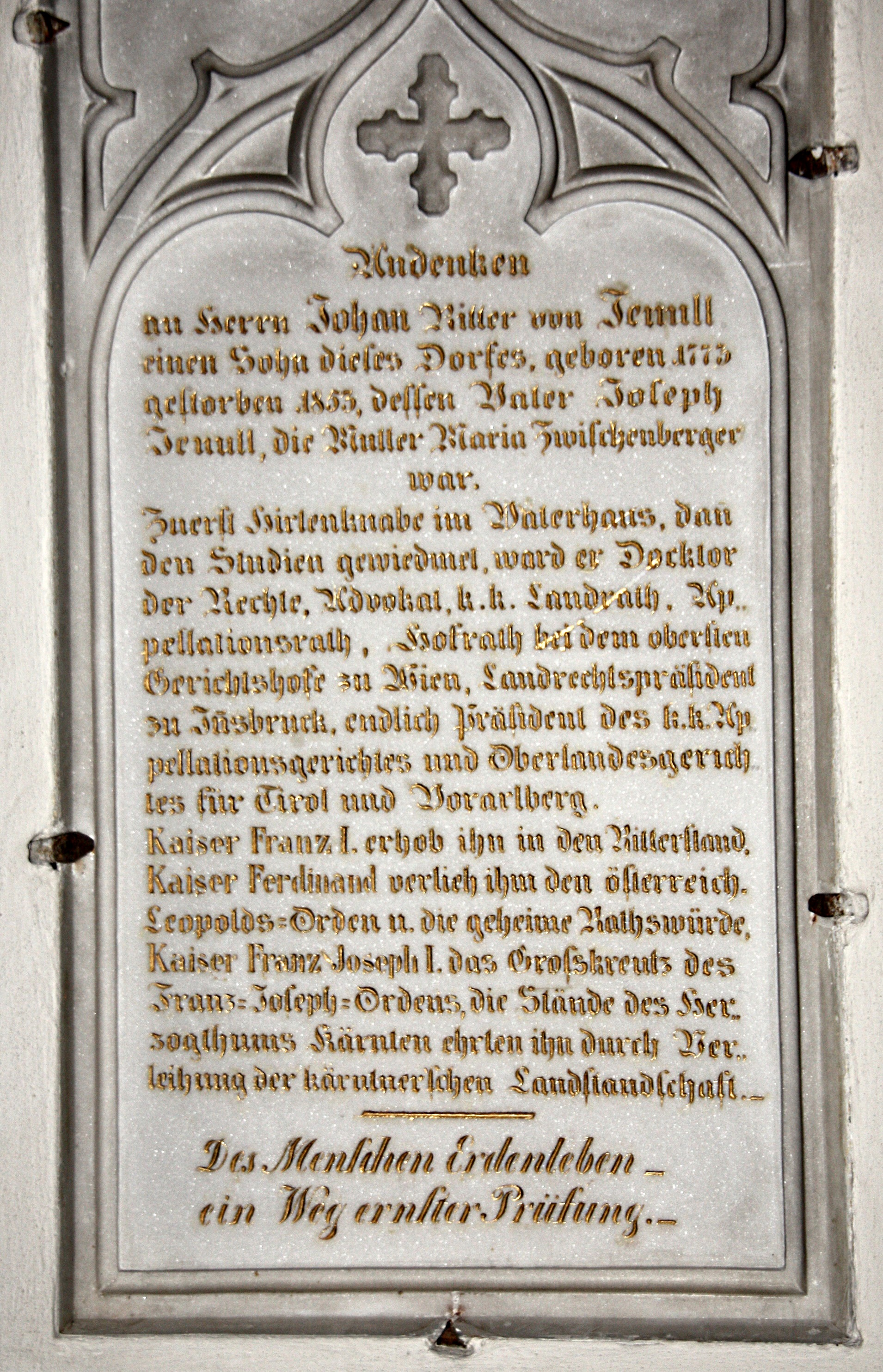 Epitaph for Austrian jurist and writer Johann Ritter von Jenull (1773–1853) in the parish church of Winklern